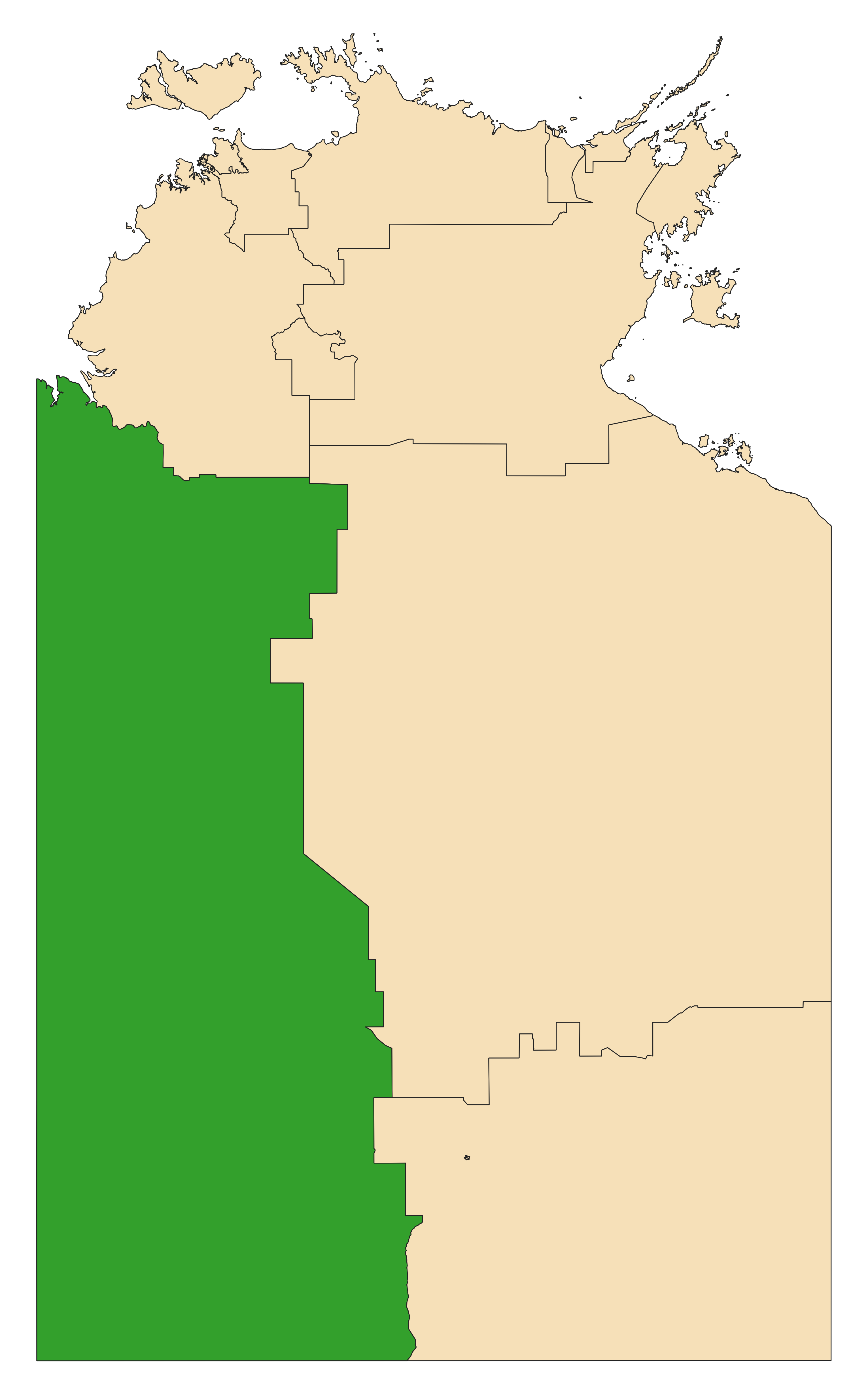 Location of the electoral division of Arafura (dark green) in the Northern Territory at the 2020 Northern Territory election